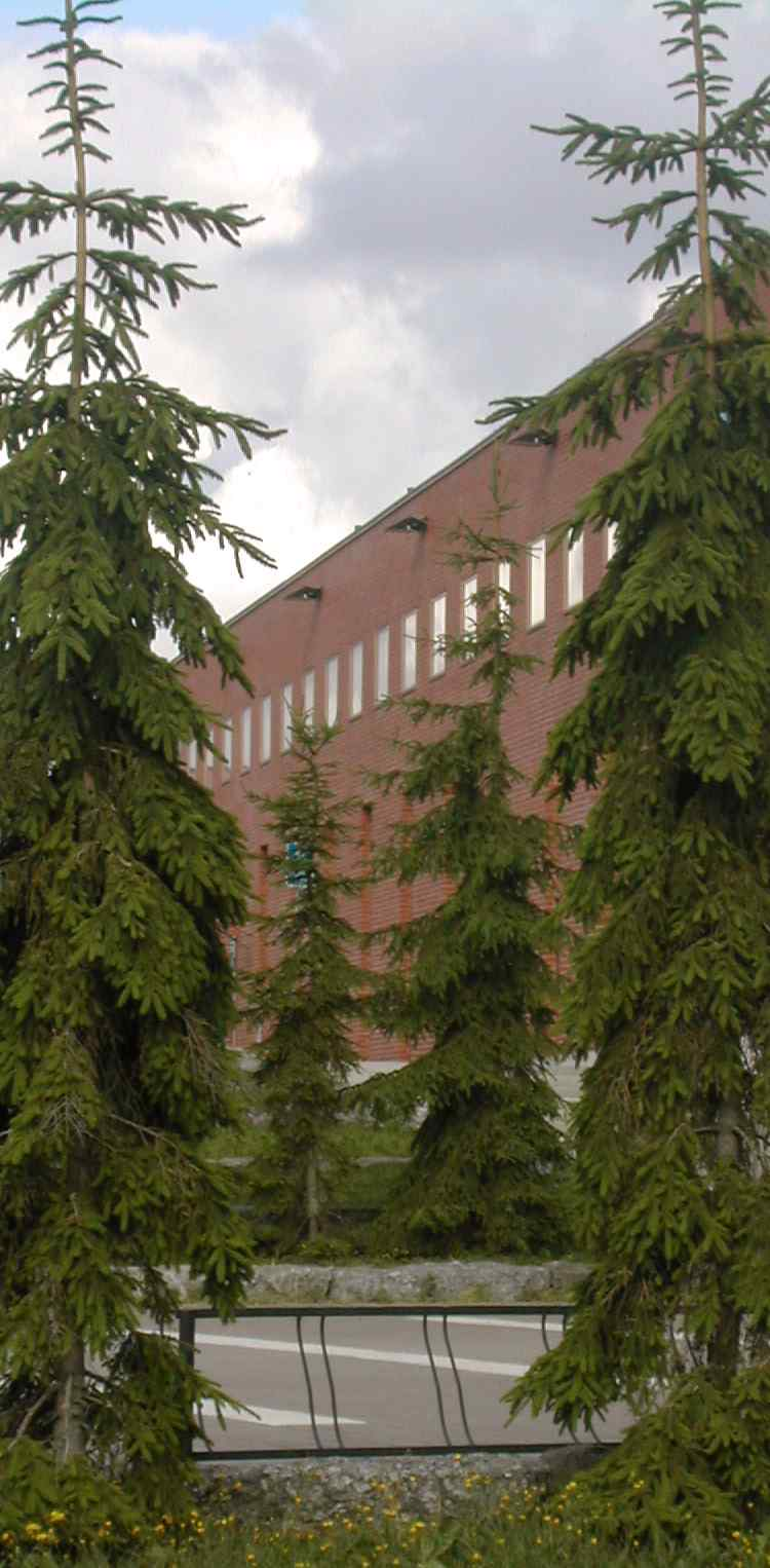 Photo of Vaasa University taken from the parking lot.